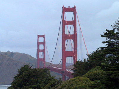 Looking at the San Francisco Golden Gate Bridge from Lincoln Park The Golden Gate Bridge is a major symbolic landmark of the city of San Francisco. It is also a world-famous suspension bridge building. Seen in the photo by the corner of the Golden Gate Bridge in the south of Lincoln Park. This image was taken by uploader User:SElephant in April 2003.